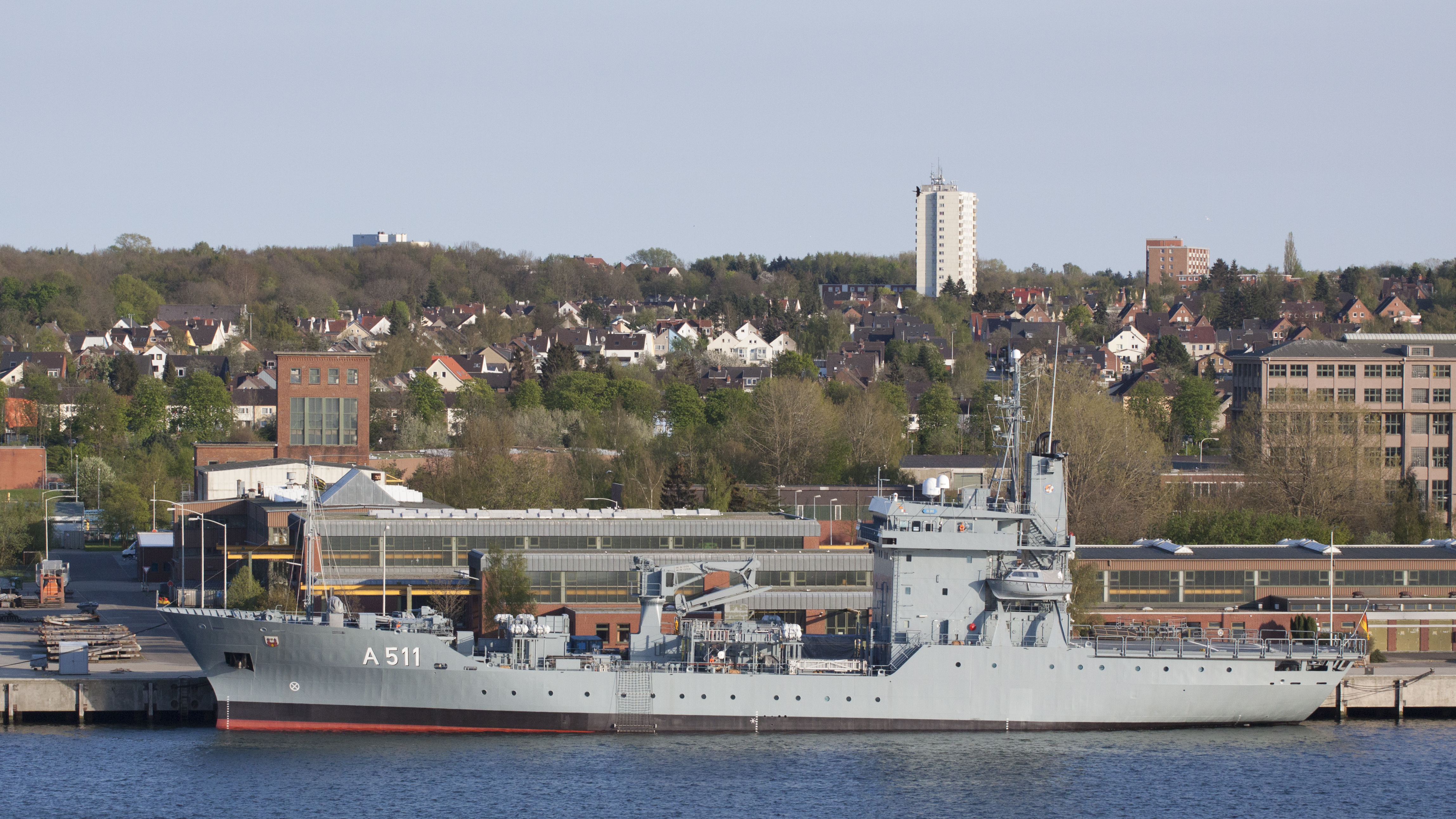 German Tender "Elbe" in port in Kiel, showing a pronounced aft trim.